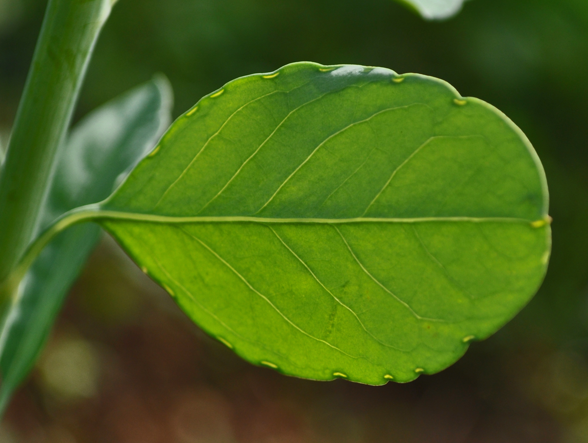 Porophyllum ruderale, leaf with pores. Darmaga, Bogor, West Java.